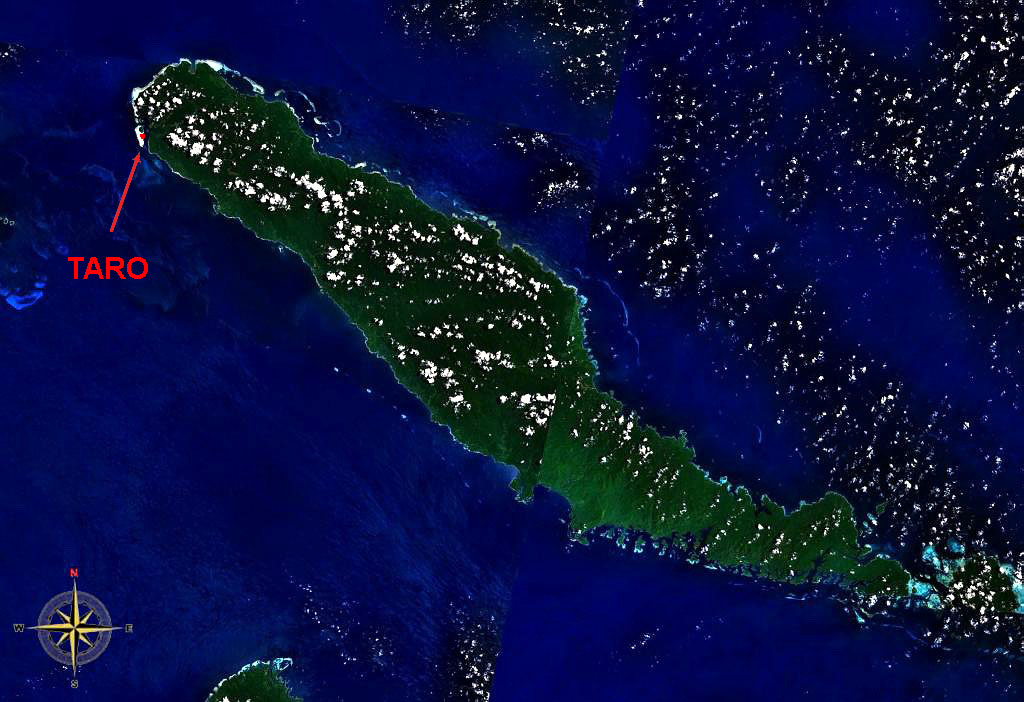 Taro Island with the near Choiseul Island in the Solomon Islands